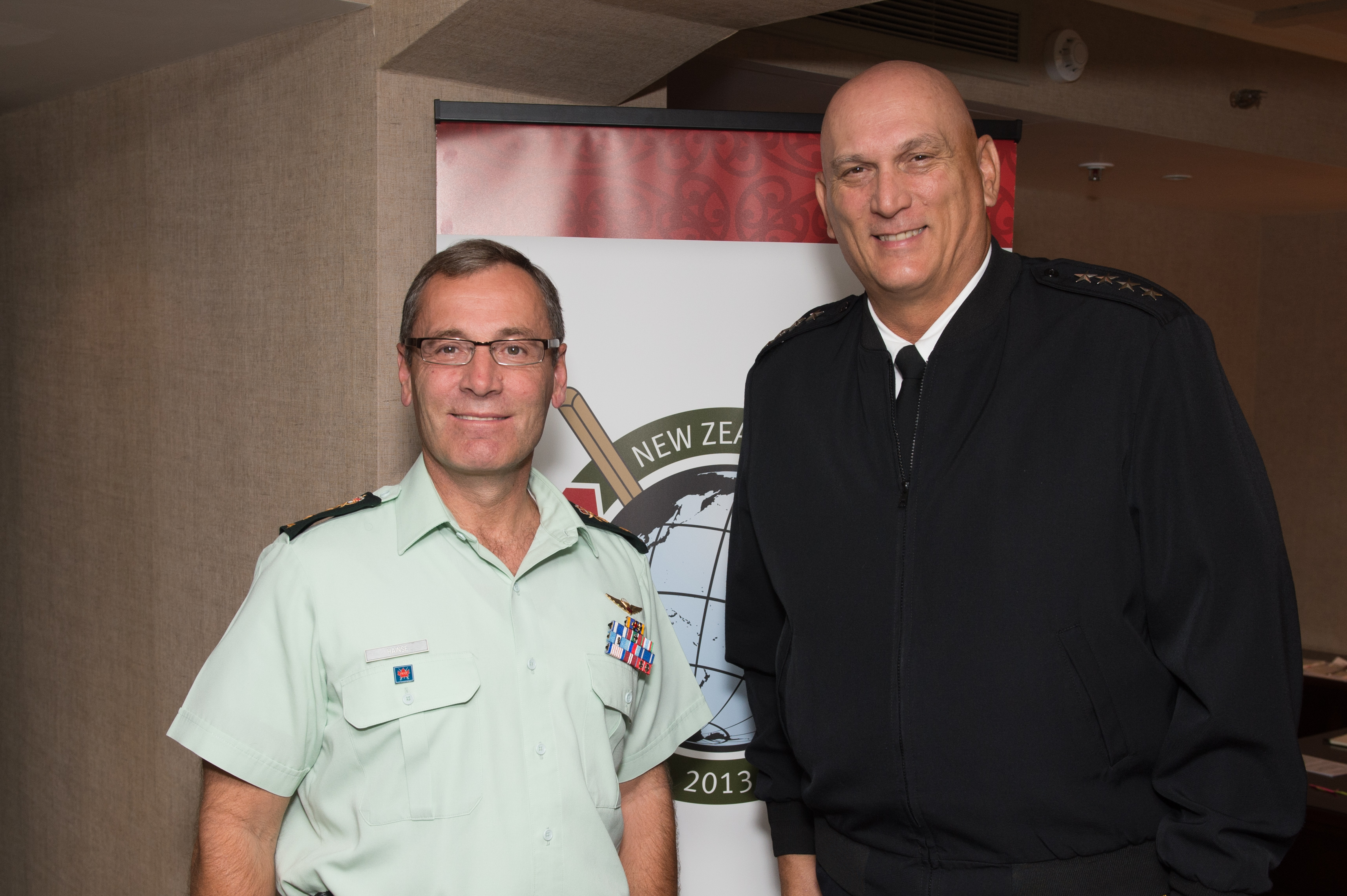 U.S. Army Chief of Staff Gen. Ray Odierno meets Canadian Army Commander Lt. Gen. Marquis Hainse during the Pacific Armies Chiefs Conference in Auckland, New Zealand Sept. 11, 2013. (U.S. Army photo by Staff Sgt. Teddy Wade/ Released)